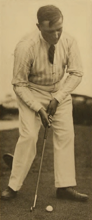 Irish-American golf professional Peter O'Hara (1886–1977). He was known for not using a backswing on short putts. Here, circa 1919, he is demonstrating that method of putting. Author Unknown Date Circa 1919